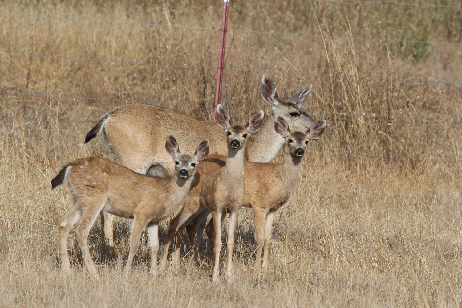 It is unusual for fawns to have triplets. While fawn mortality and overall mule deer numbers have declined in the Diablo Range, superior habitat restoration with native forage and replacement of cattle troughs with cleaner wildlife drinkers at the Cañada de los Osos Ecological Reserve have improved survival.